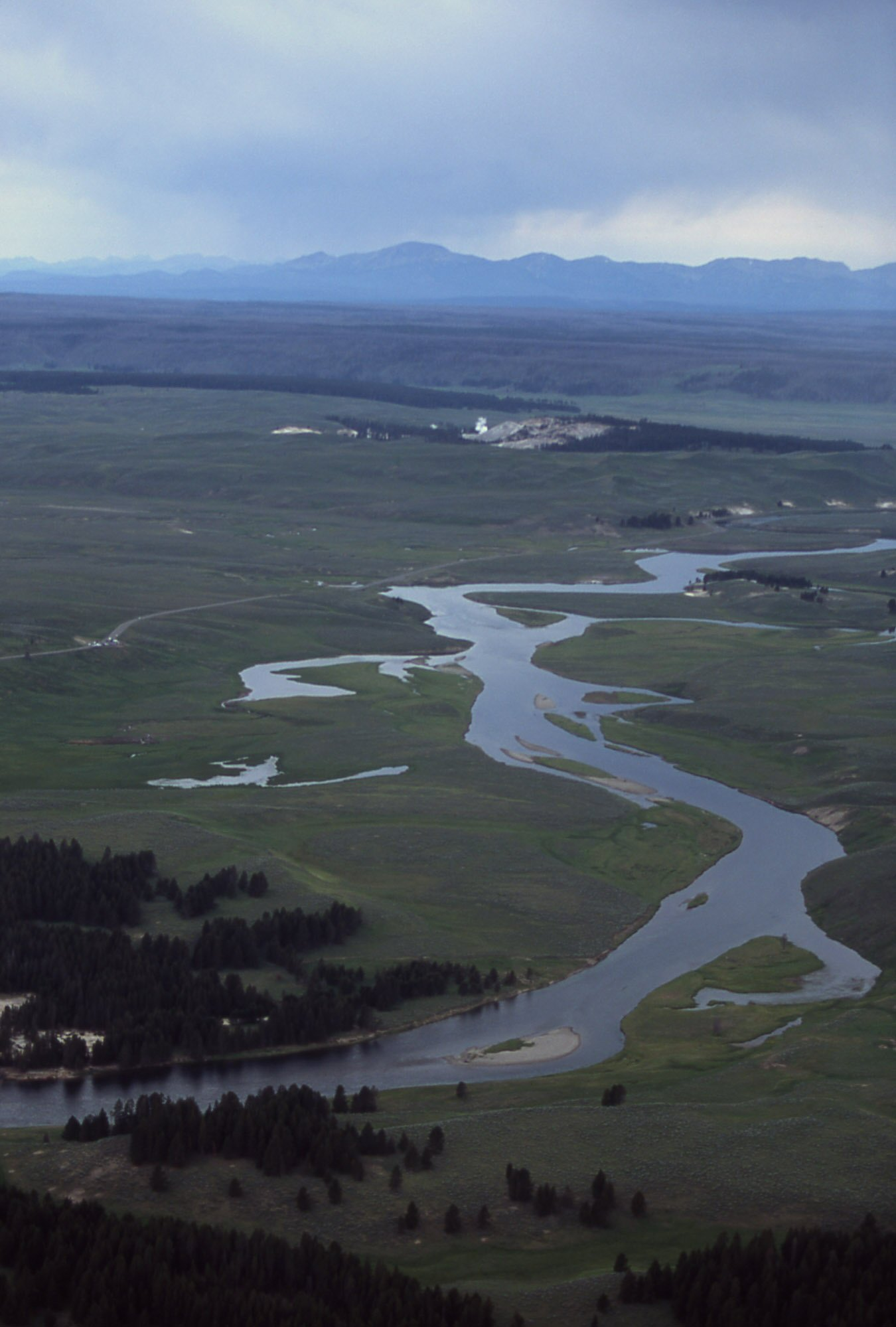 Aerial view of Hayden Valley looking north to Gallatin Range and Crater Hills Geyser Group, 2001